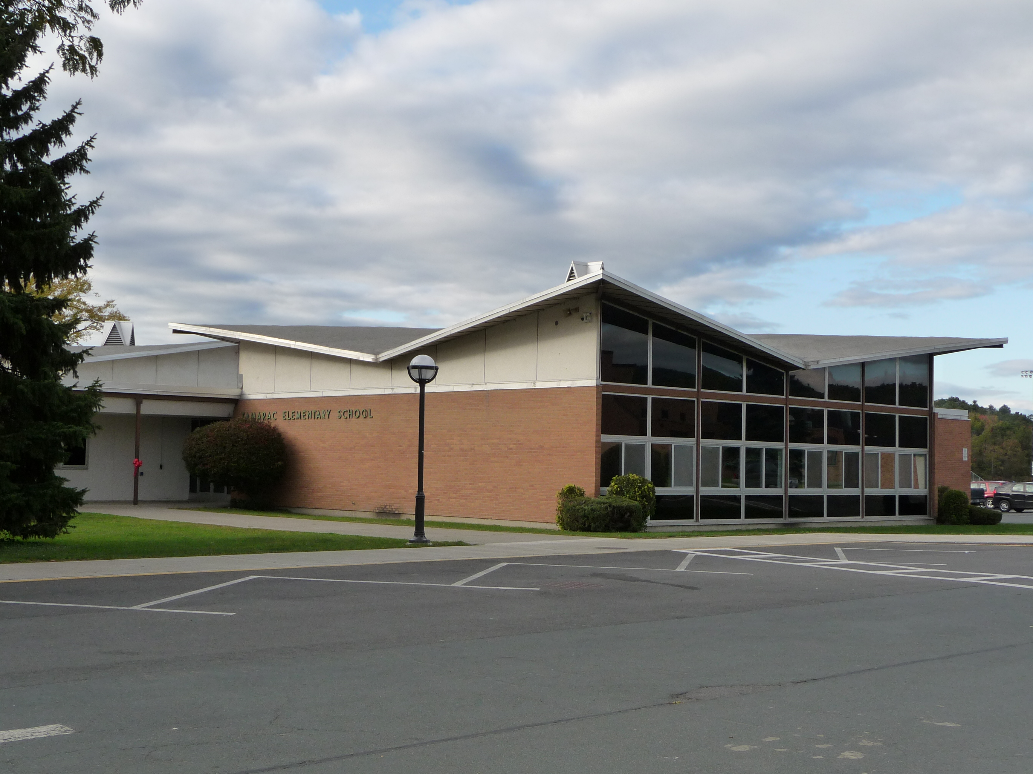 Outside of the cafeteria in Tamarac Elementary School, part of Brunswick (Brittonkill) Central School District located outside Troy, New York